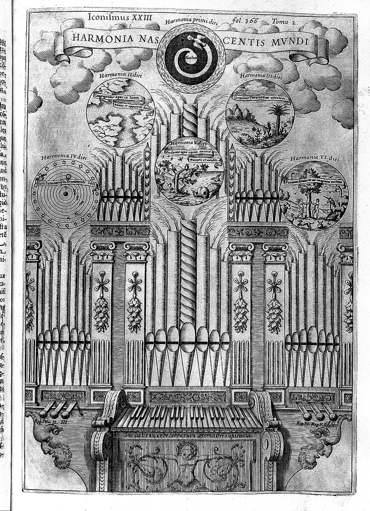 Iconifmus XXIII, 'Harmonia Na Centis Mundi.' Musical organ with diagrams. Rare Books Keywords: Music